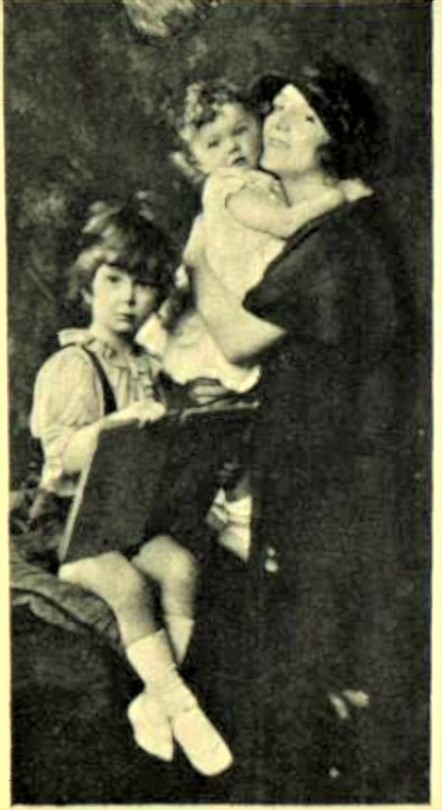 Mabel Philipson with her children, shortly before her election as Member of Parliament for Berwick-upon-Tweed. Original publication: Illustrated London News